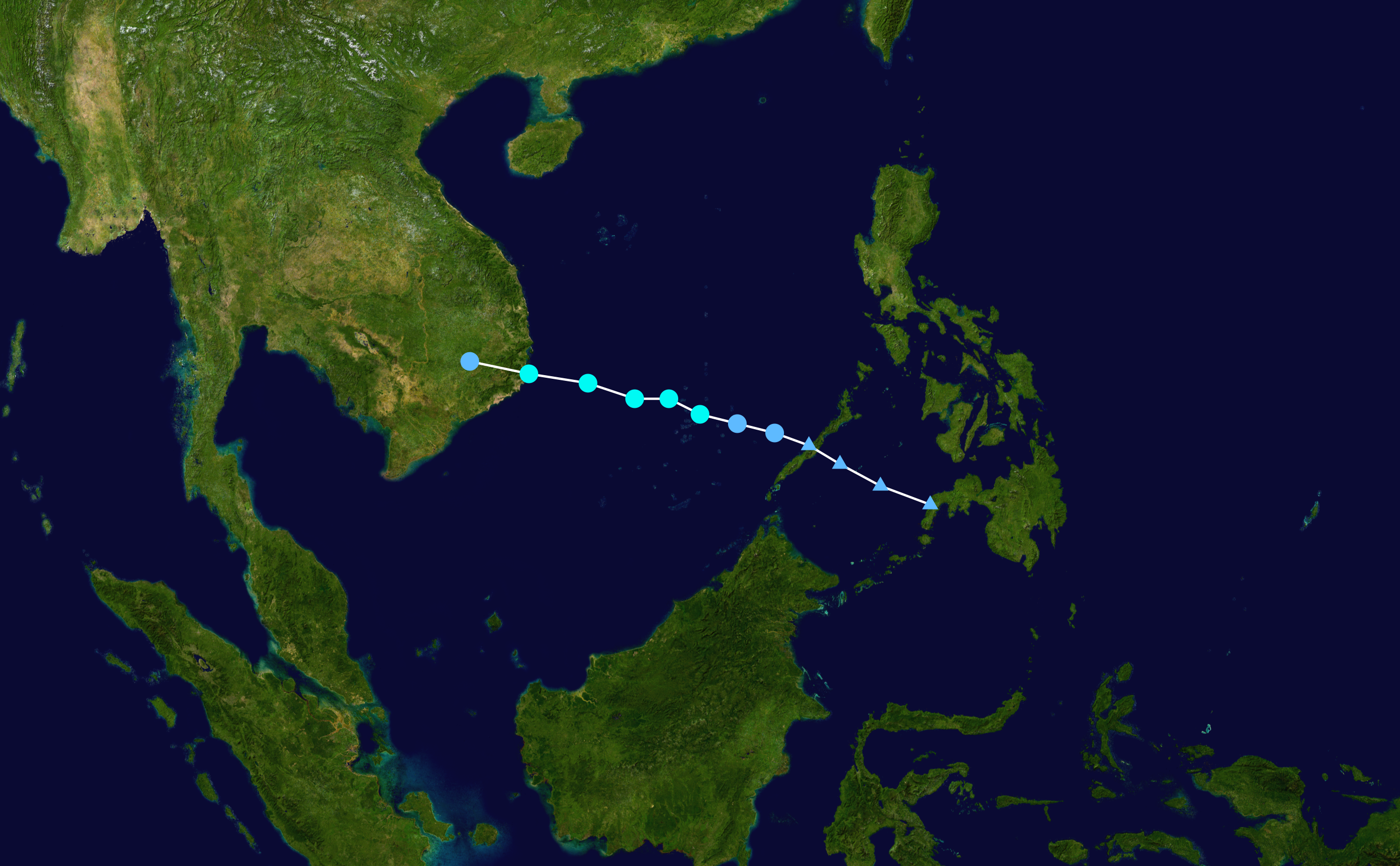 Track map of Tropical Storm Noul of the 2008 Pacific typhoon season. The points show the location of the storm at 6-hour intervals. The colour represents the storm's maximum sustained wind speeds as classified in the Saffir–Simpson scale (see below), and the shape of the data points represent the nature of the storm, according to the legend below. Saffir–Simpson scale Tropical depression≤38 mph≤62 km/h Category 3111–129 mph178–208 km/h Tropical storm39–73 mph63–118 km/h Category 4130–156 mph209–251 km/h Category 174–95 mph119–153 km/h Category 5≥157 mph≥252 km/h Category 296–110 mph154–177 km/h Unknown Storm type Tropical cyclone Subtropical cyclone Extratropical cyclone / Remnant low / Tropical disturbance / Monsoon depression